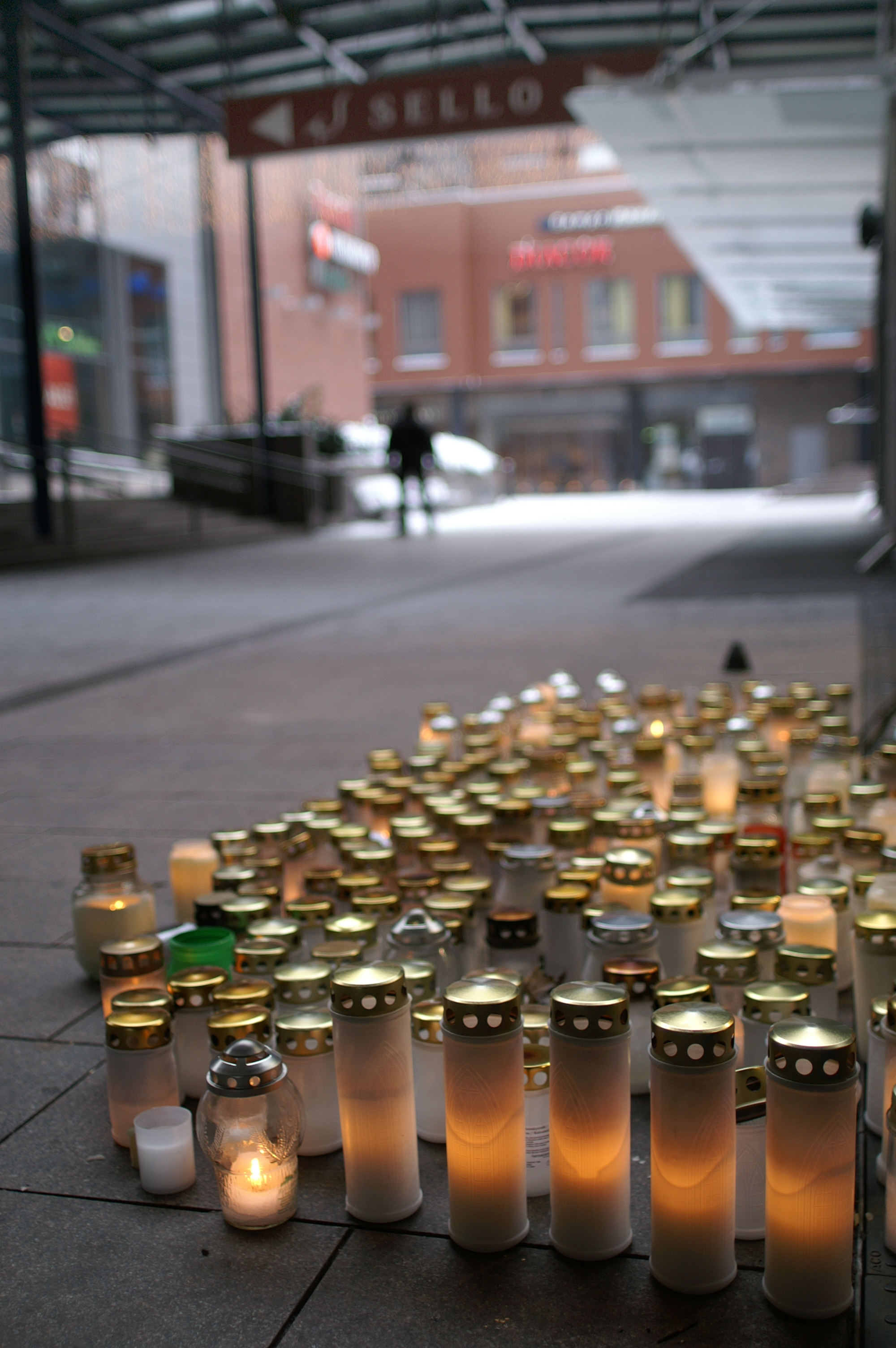 Candles in front of Prisma hypermarket at Sello shopping mall in Espoo, Finland, after the shooting of 31 December 2009